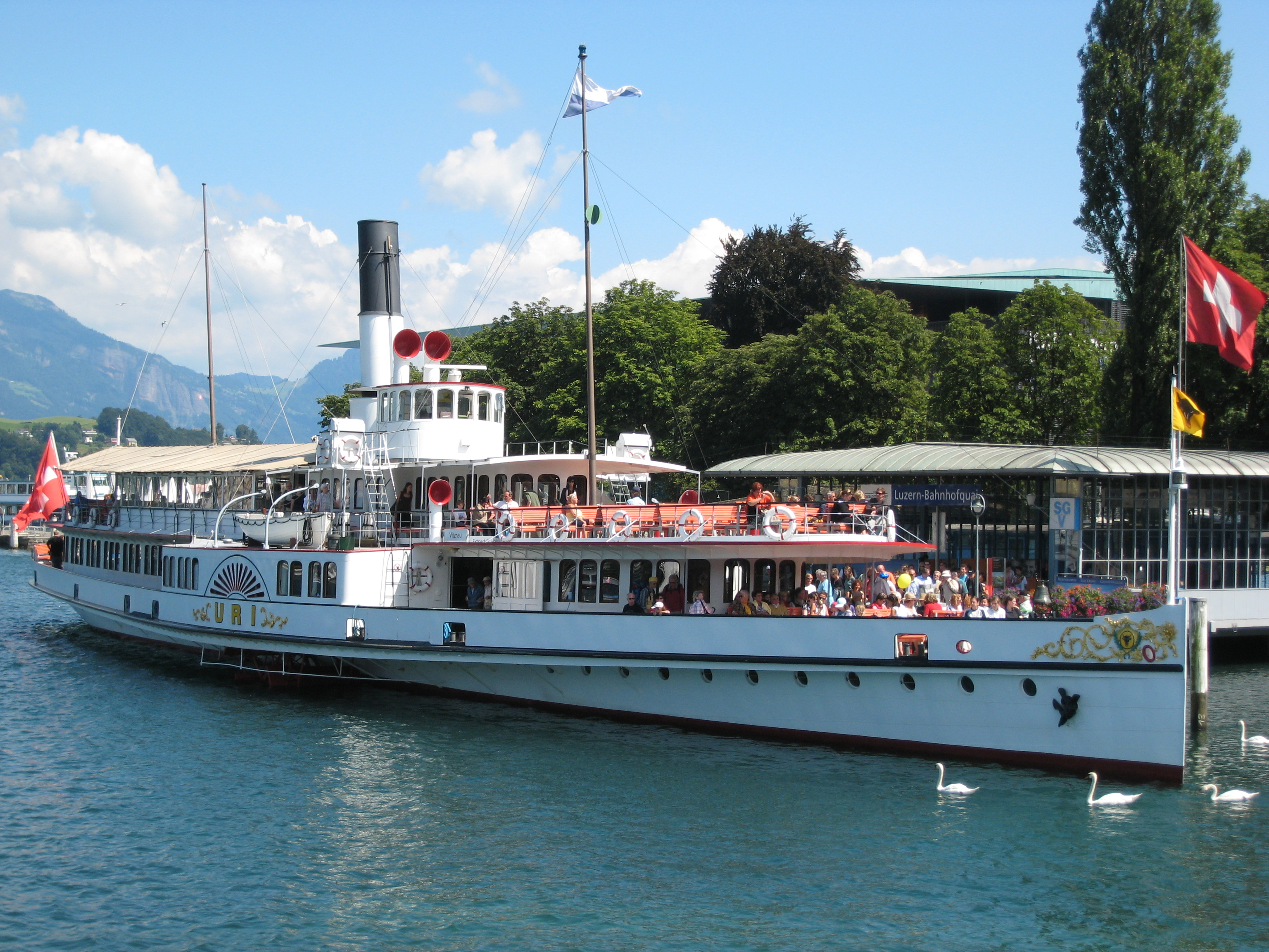 Steamship Uri in Lucern